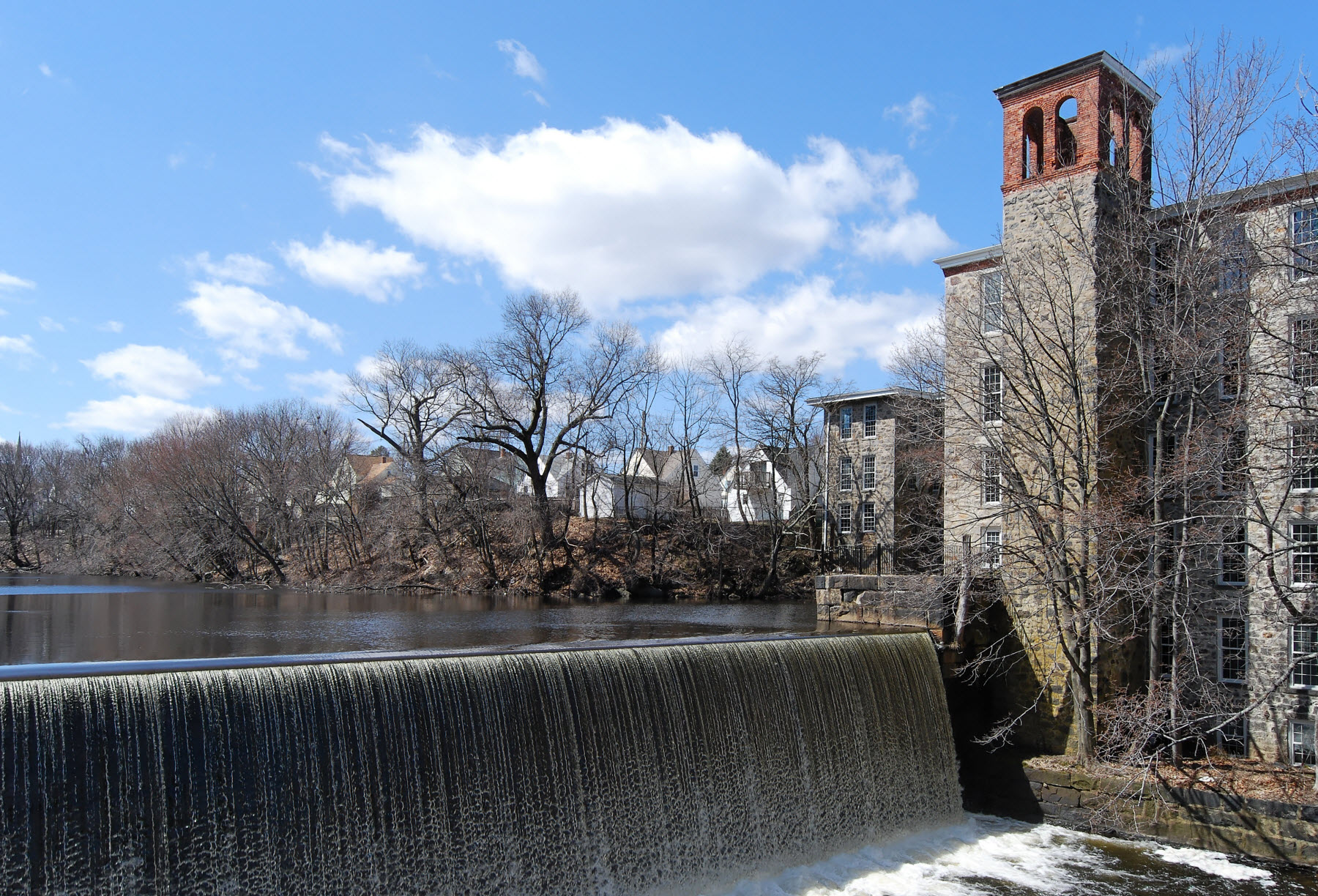 Pawtuxet River (South Branch) at Royal Mills, Riverpoint, West Warwick, Rhode Island